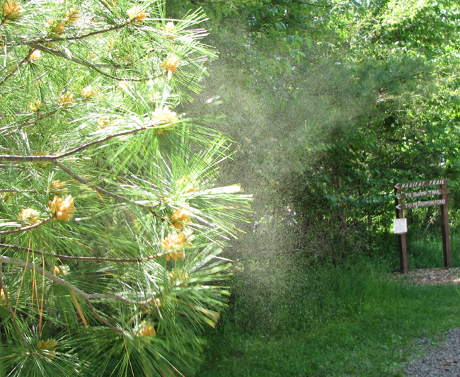 Pollen from pine tree. Peace Valley Nature Center. PA, USA